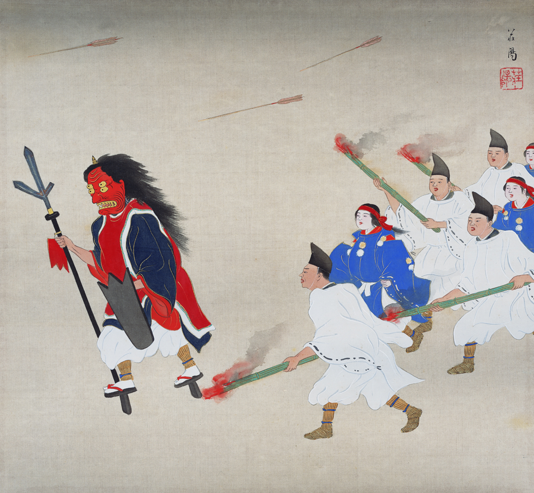 Tsuina of Yoshida shrine, Kyoto city Japan